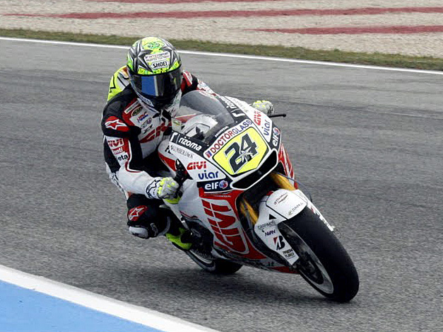 Toni Elias 2011 Estoril